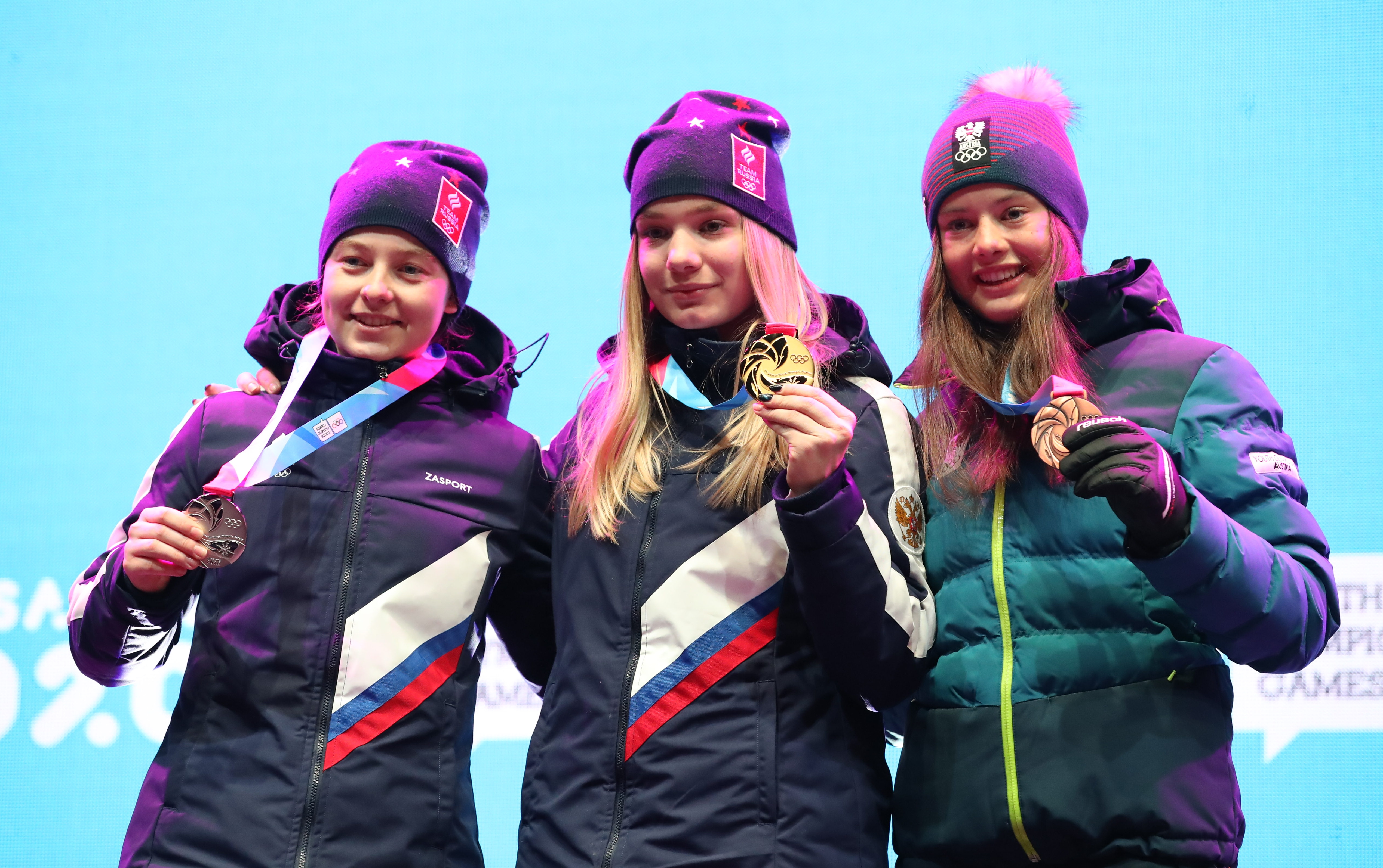 Medal Ceremony Day 5, 2020 Winter Youth Olympics in Lausanne